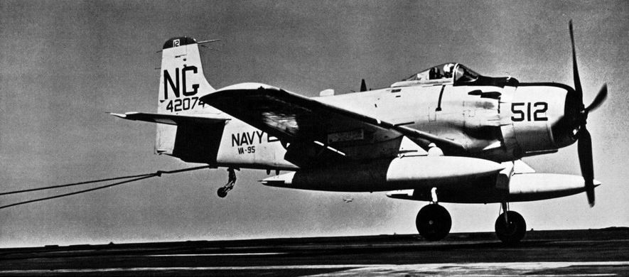 A U.S. Navy Douglas AD-7 Skyraider (BuNo 142074) from Attack Squadron VA-95 Skyknights landing on the aircraft carrier USS Ranger (CVA-61). VA-95 was assigned to Carrier Air Group 9 (CVG-9) aboard the Ranger for a deployment to the Western Pacific from 6 February to 30 August 1960.